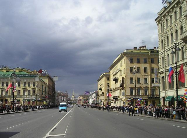 Central avenue of Saint-Petersburg. Nevsky avenue